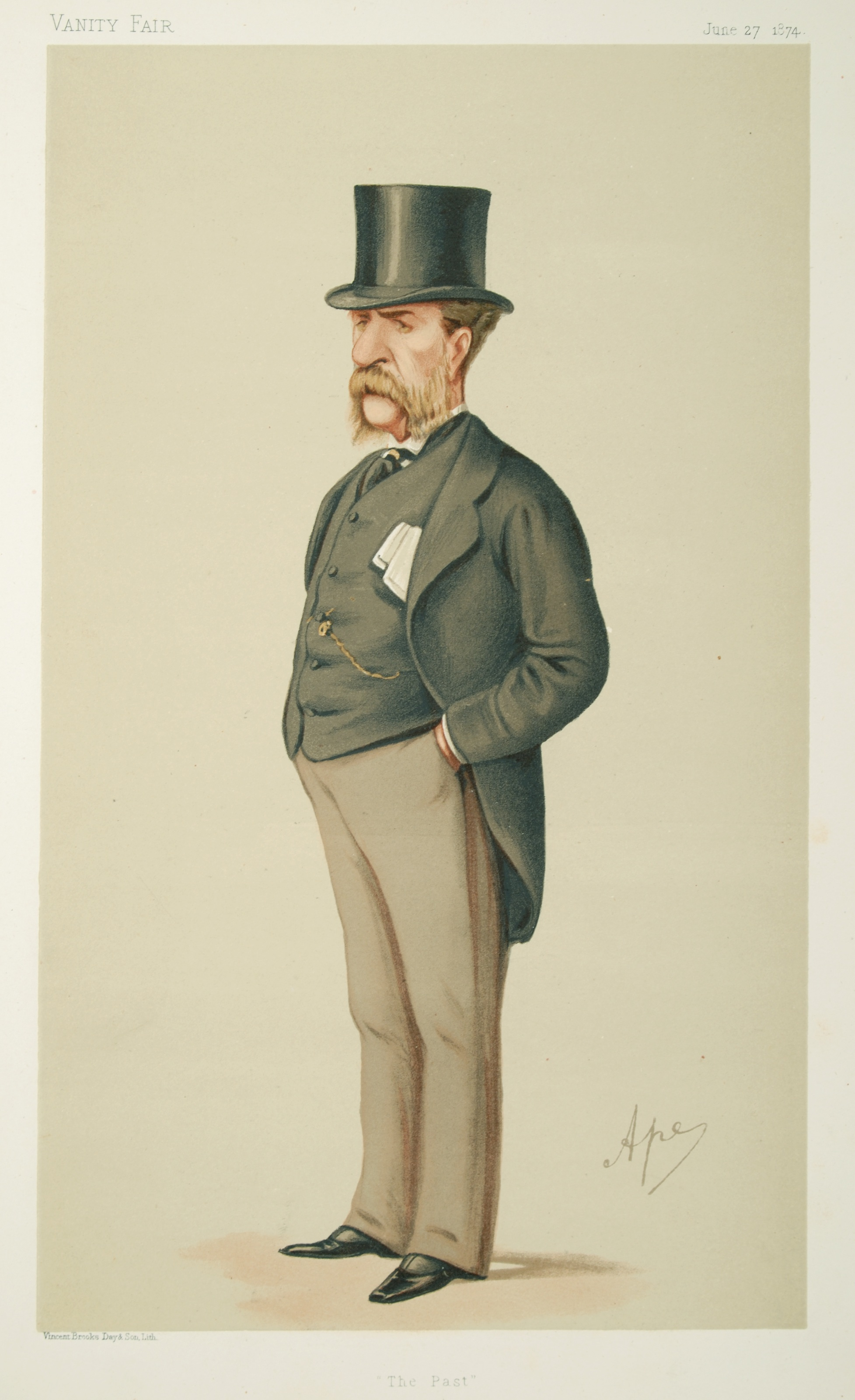 Statesmen No.176: Caricature of William Patrick Adam M.P.. Caption read "The Past"